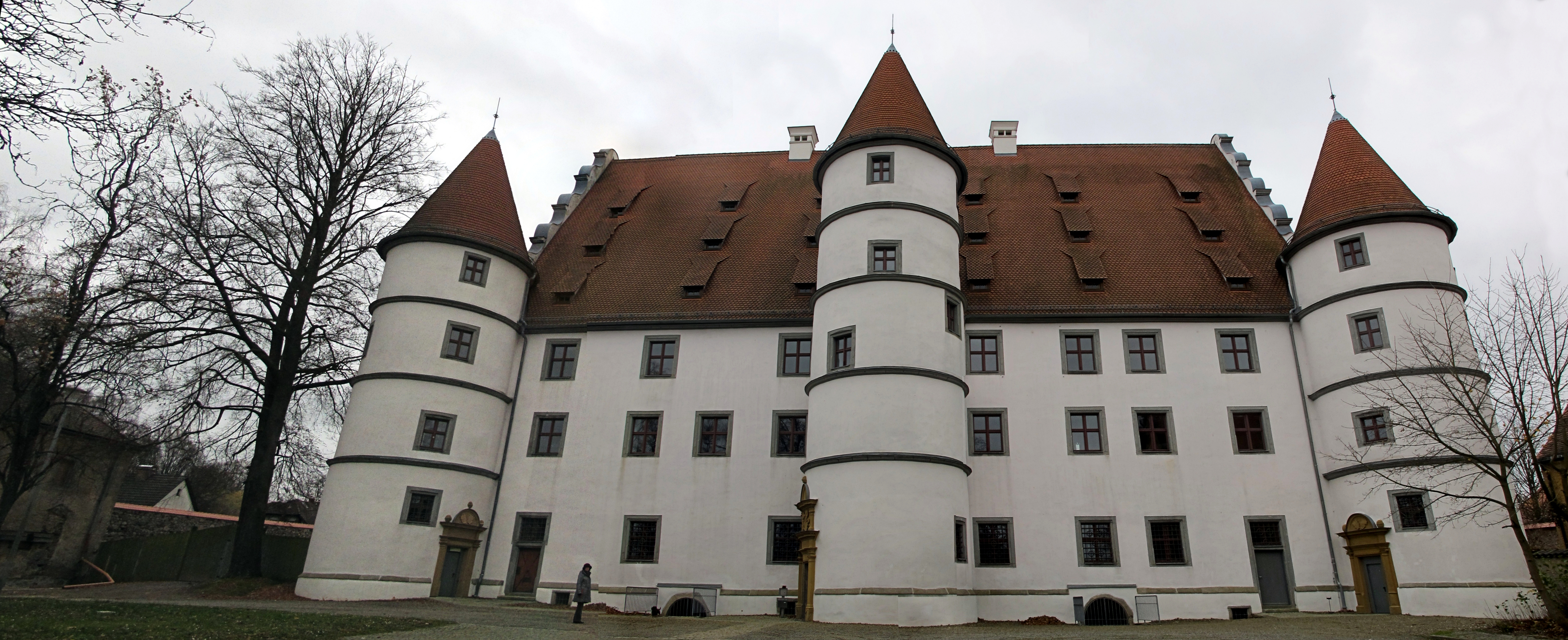 Germany, Bavaria